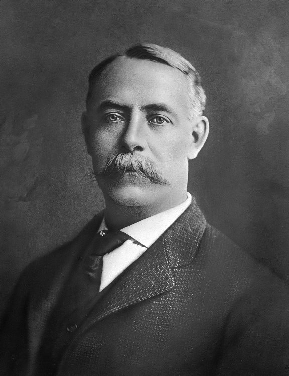 Portrait of former Mayor of Pittsburgh William B. Hays